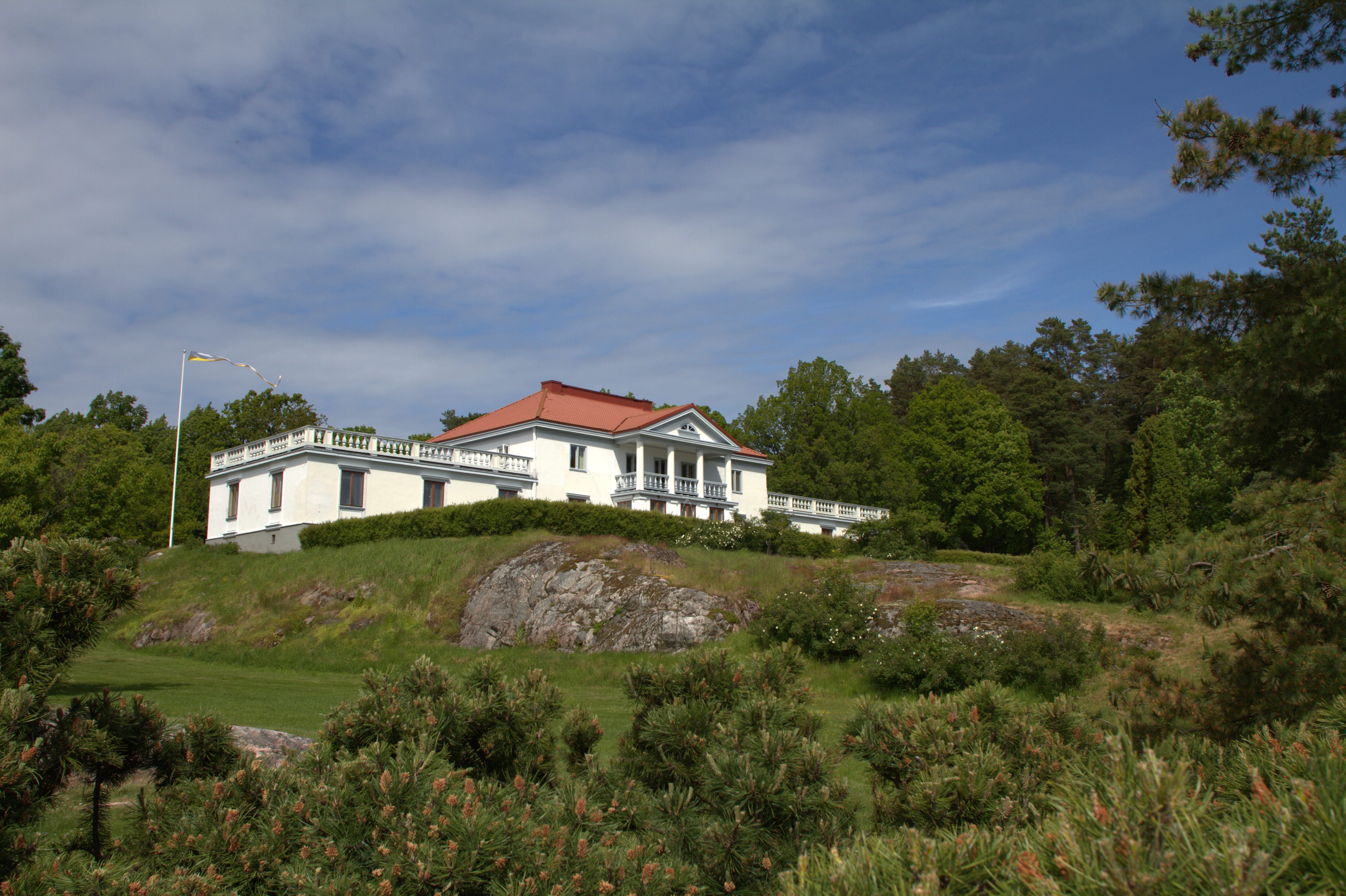 Söderlångvik